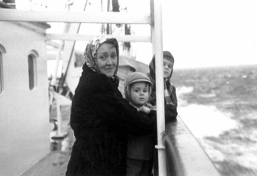 Birgit Anderson Ridderstedt & sons Jacob (then called Lars-Erik) & Stefan (then called Carl-Johan), as released by image owner FamSACPlace: M/S Kristina Thordén, North Atlantic Ocean